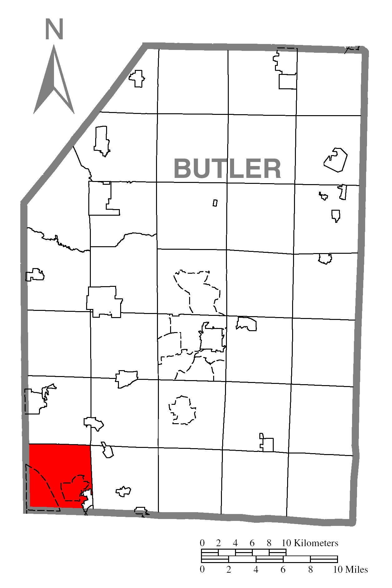 A map of Butler County showing Cranberry Township, Pennsylvania (alternate) highlighted on the map.